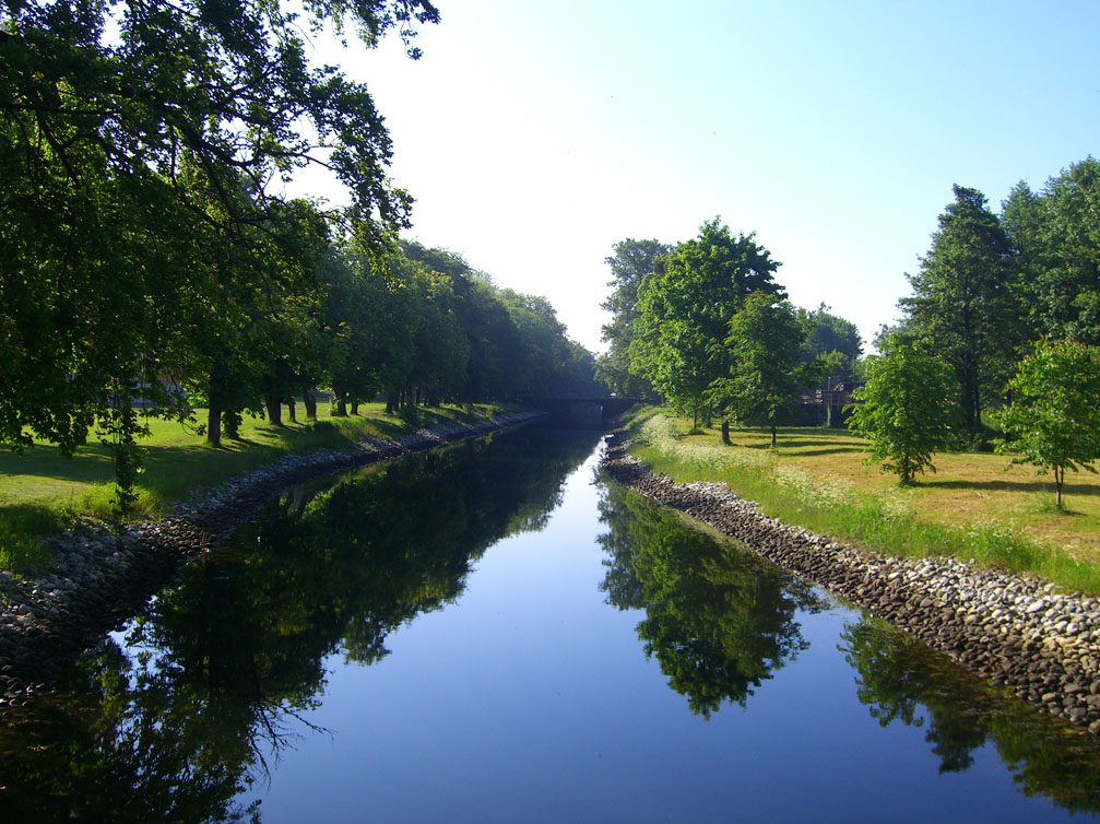 View of the artificial canal in Horten, Norway